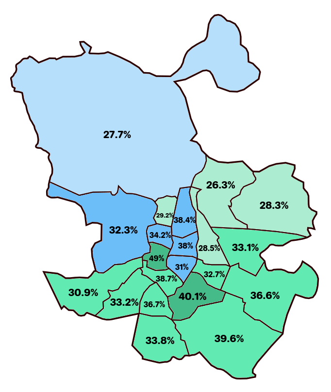 2019 Madrid City election results by percentage of most voted party by district